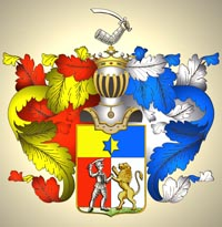 Coat of Arms of Polyansky family